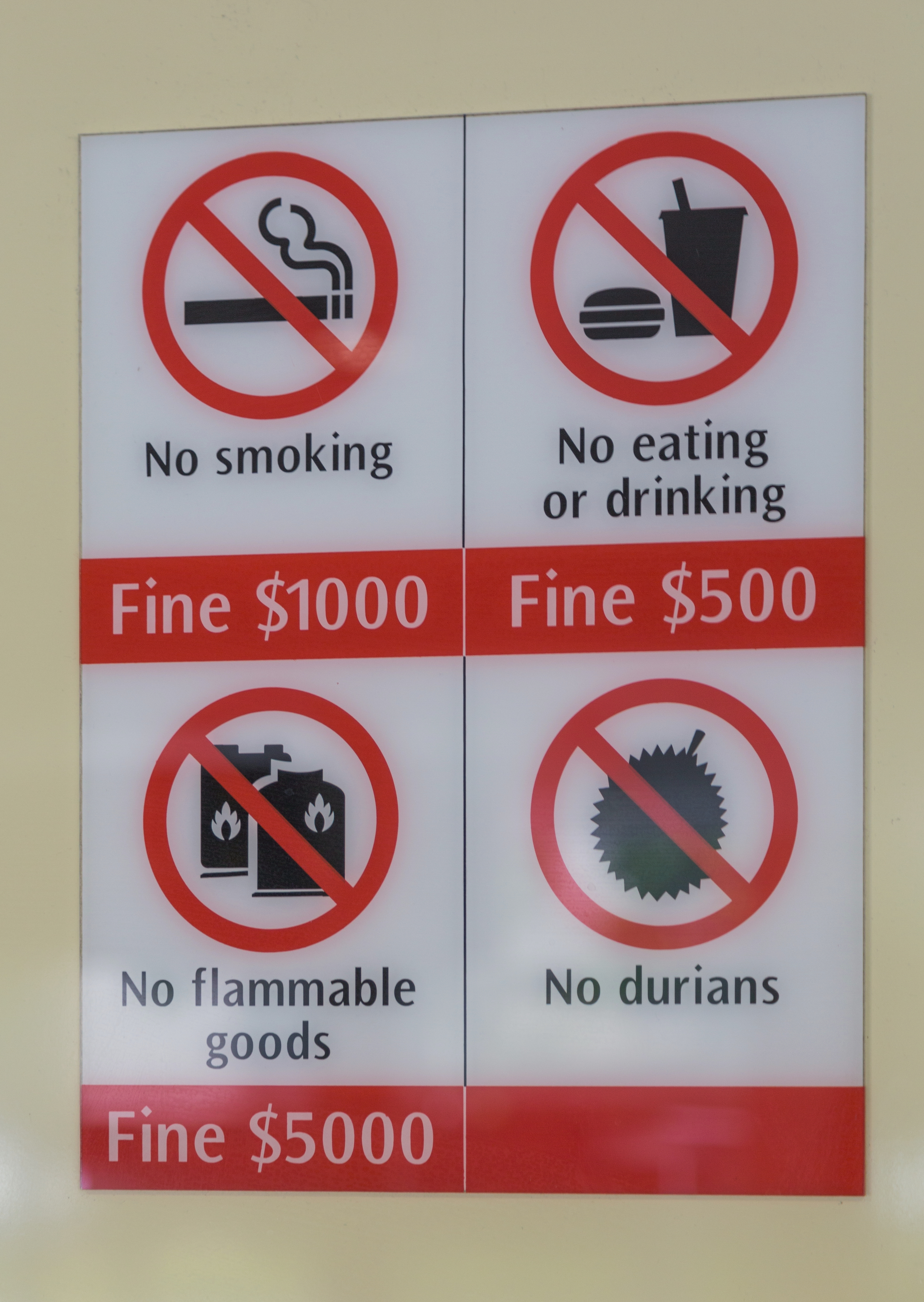 Prohibition signs in the Telok Ayer MRT Station. Chinatown, Central Region, Singapore.